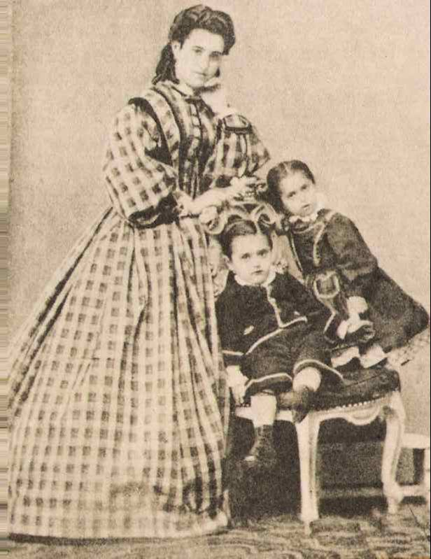 Herzl with his mother Janet and older sister Pauline in Budapest.